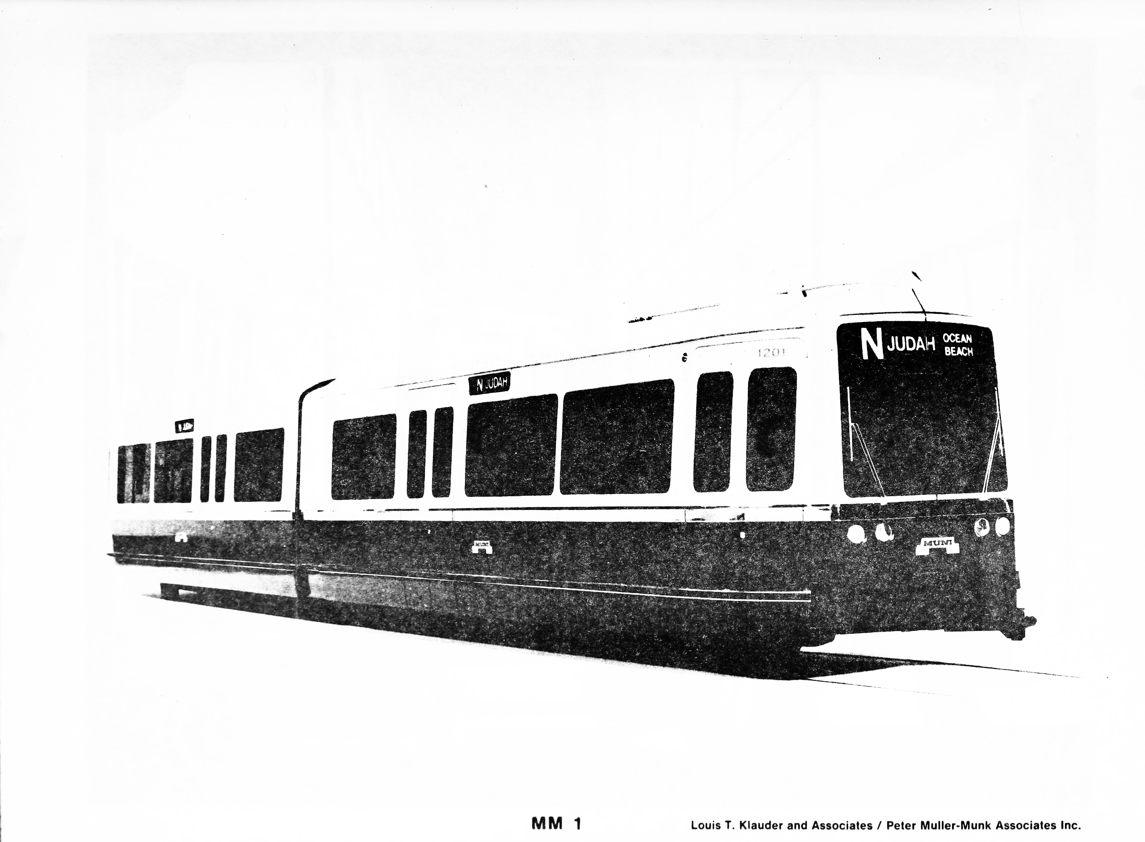 Exterior of 1971 Louis T. Klauder design for planned Muni Metro Light Rail Vehicle.